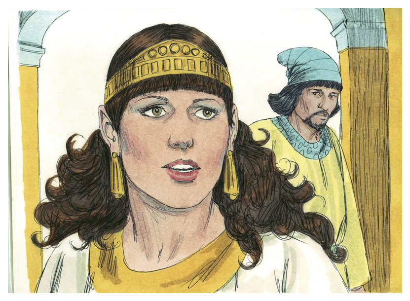 Biblical illustration of Book of Esther Chapter 4